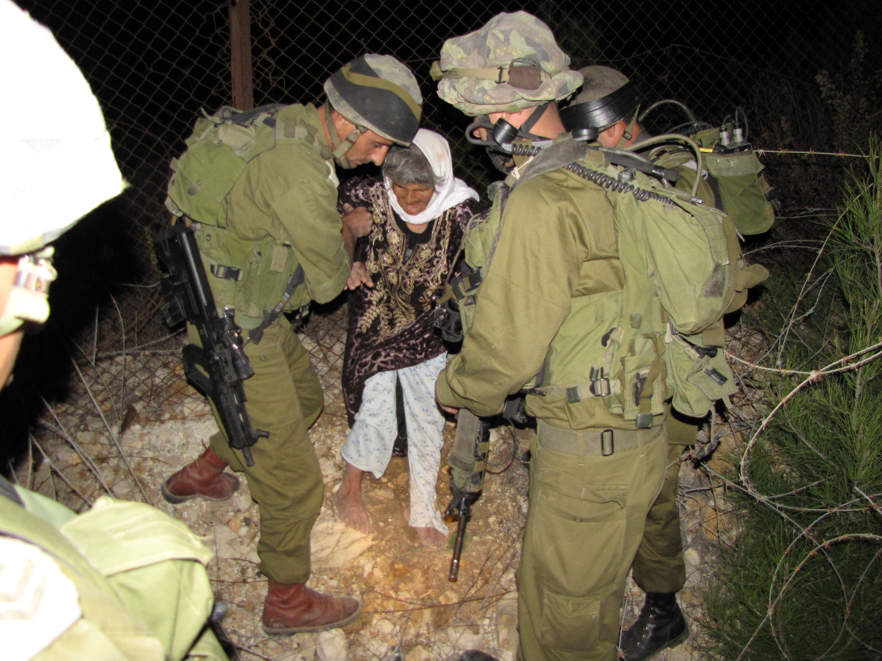 November 13, 2010. IDF soldiers rescued an eighty year old Lebanese woman, after she got tangled in the security fence on the northern border, on the Lebanese side. The rescue was coordinated with UNIFIL forces present at the scene. The woman was returned to Lebanon through the Rosh HaNikra crossing and transferred to UNIFIL.